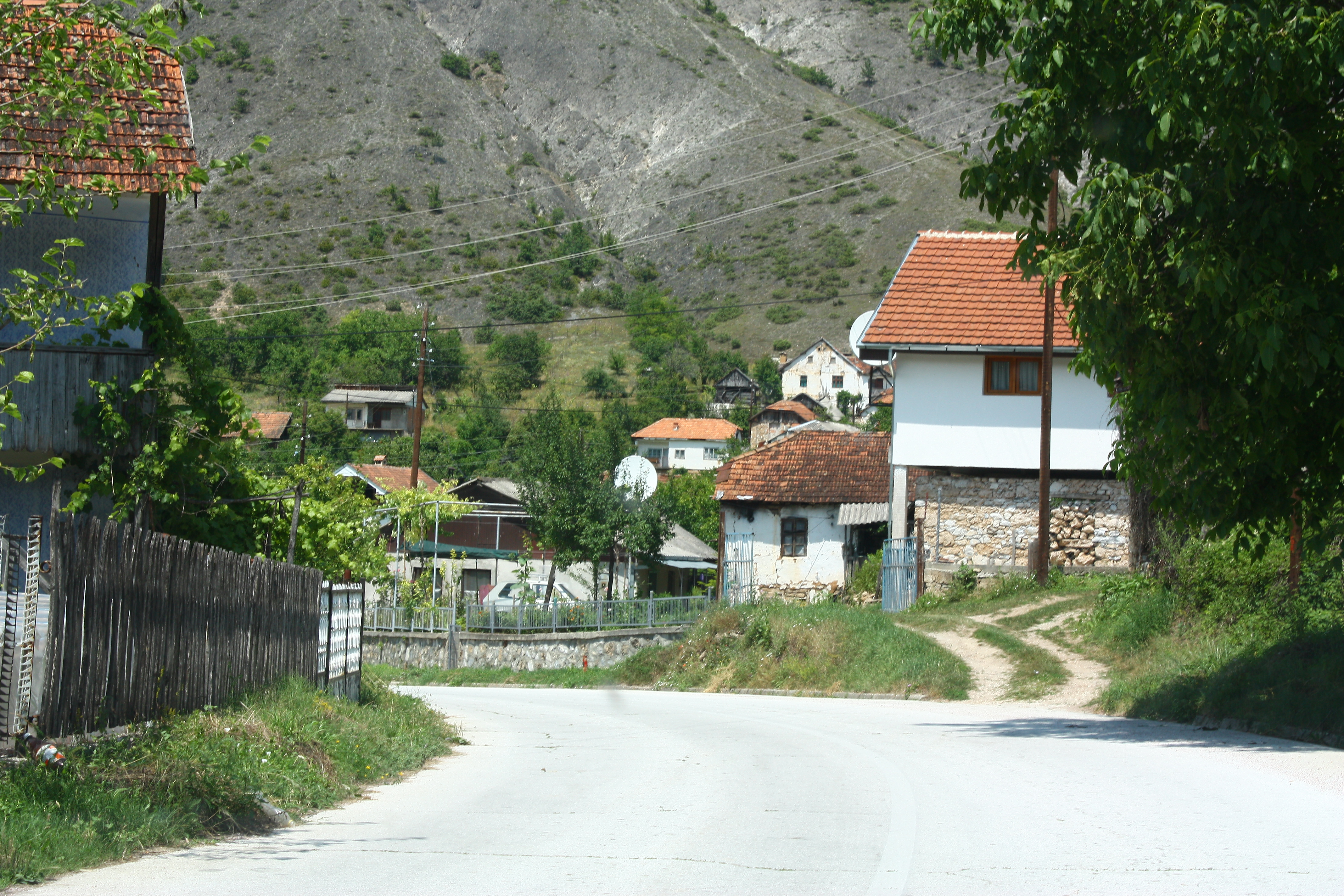 Modrište, Makedonski Brod Municipality, Macedonia